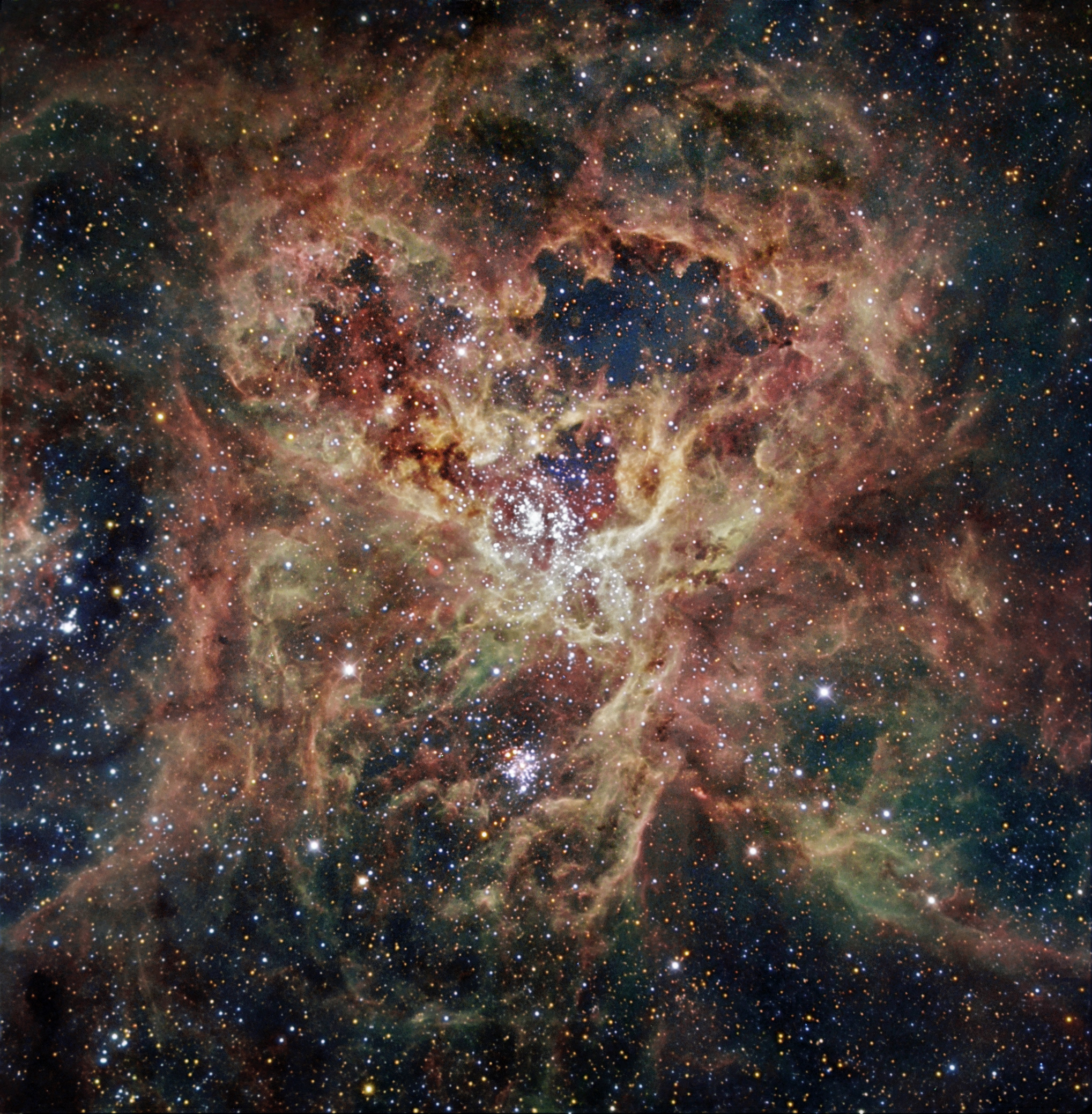 Located inside the Large Magellanic Cloud (LMC) – one of our closest galaxies – in what some describe as a frightening sight, the Tarantula nebula is worth looking at in detail. Also known as 30 Doradus or NGC 2070, the nebula owes its name to the arrangement of its bright patches that somewhat resemble the legs of a tarantula. Taking the name of one of the biggest spiders on Earth is very fitting in view of the gigantic proportions of this celestial nebula — it measures nearly 1,000 light years across ! Its proximity, the favourable inclination of the LMC, and the absence of intervening dust make this nebula one of the best laboratories to better understand the formation of massive stars. This spectacular nebula is energised by an exceptionally high concentration of massive stars, often referred to as super star clusters. This image is based on data acquired with the 1.5 m Danish telescope at the ESO La Silla Observatory in Chile, through three filters (B: 80 s, V: 60 s, R: 50 s).